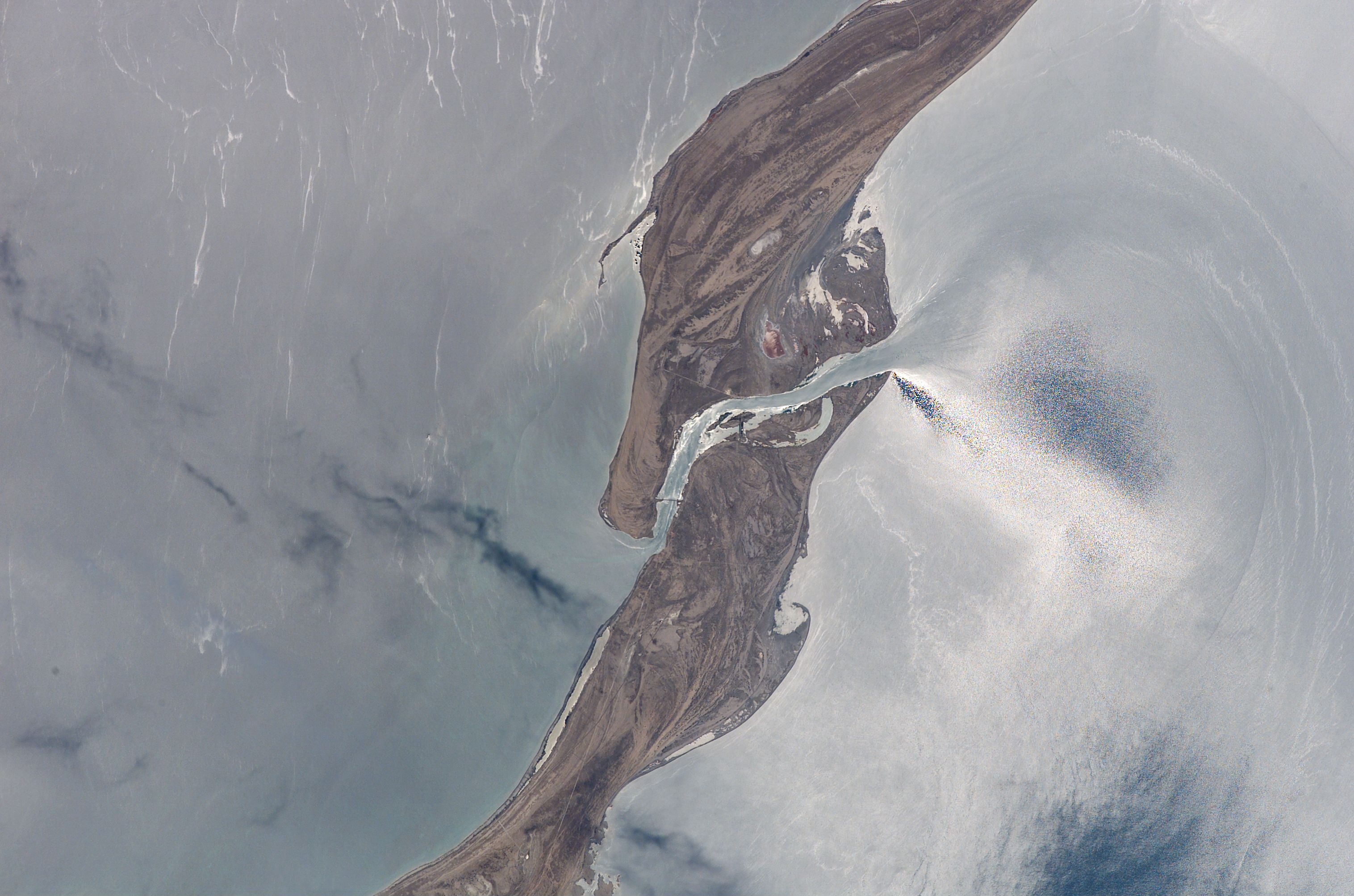 This view taken by the STS-111 crew from the Space Shuttle in June 2002 shows the sun reflecting off the surface waters that surround the spit that defines the Zaliv Kara-Bogaz-Gol from the open Caspian Sea.